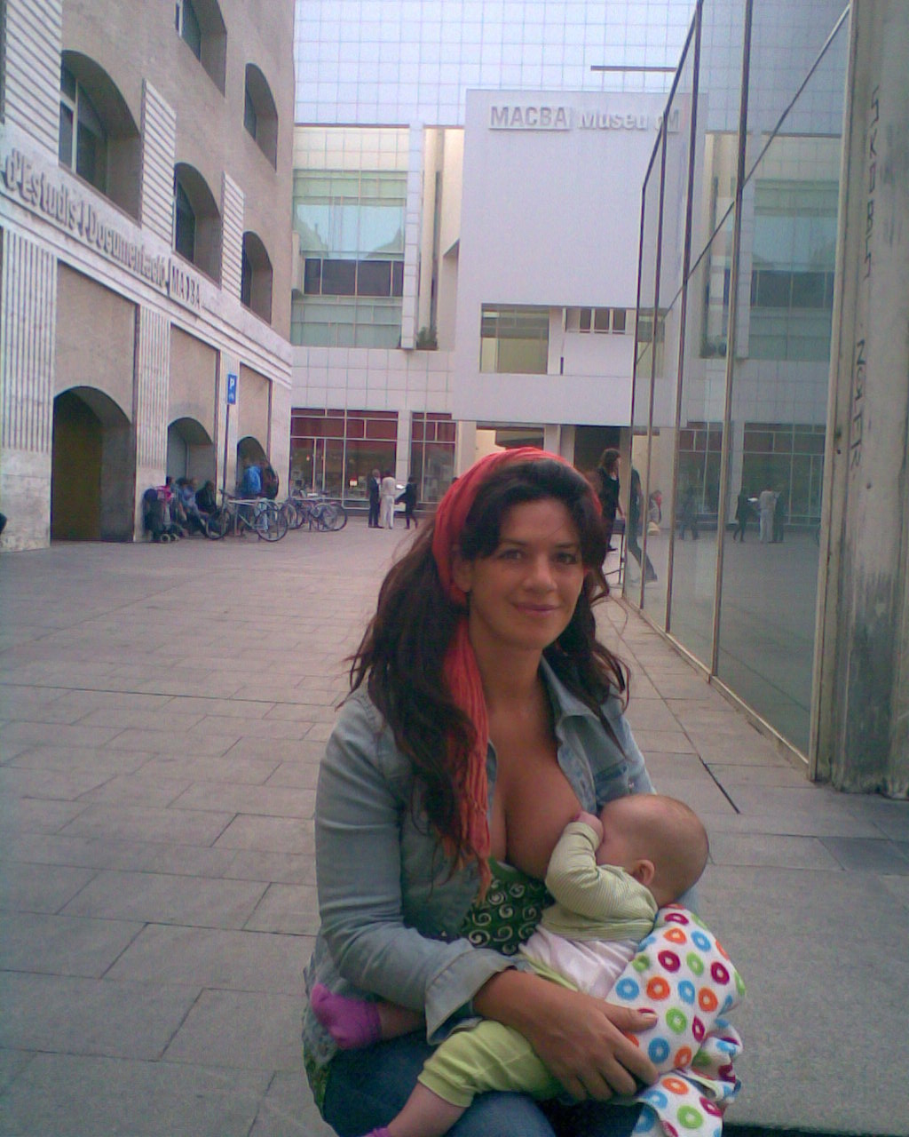 woman breastfeeding baby